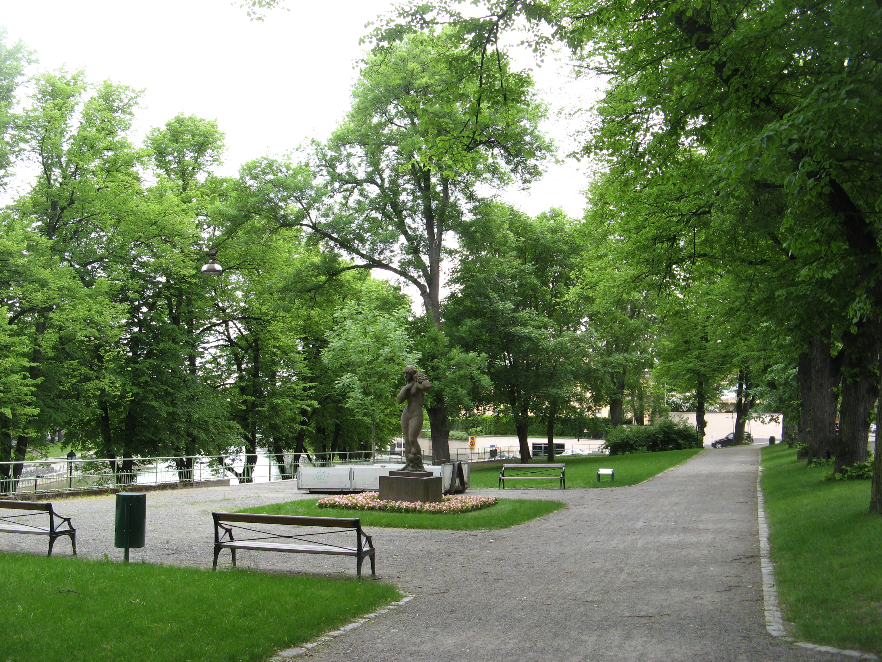 Runeberginpuisto in Turku. The river Aura to the left, the Lilja sculpture in the centre, the Rettig palace in the background.